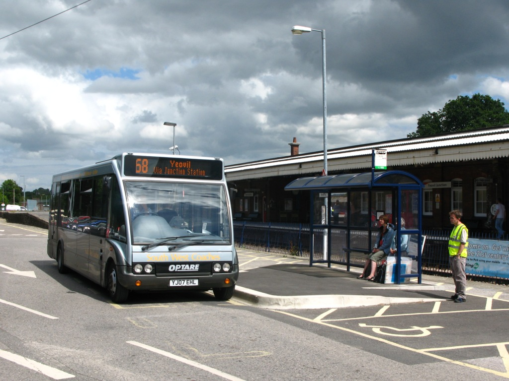 South West Coaches' Optare Solo YJ07 EHL at Yeovil Junction railway station with a service to the town centre.